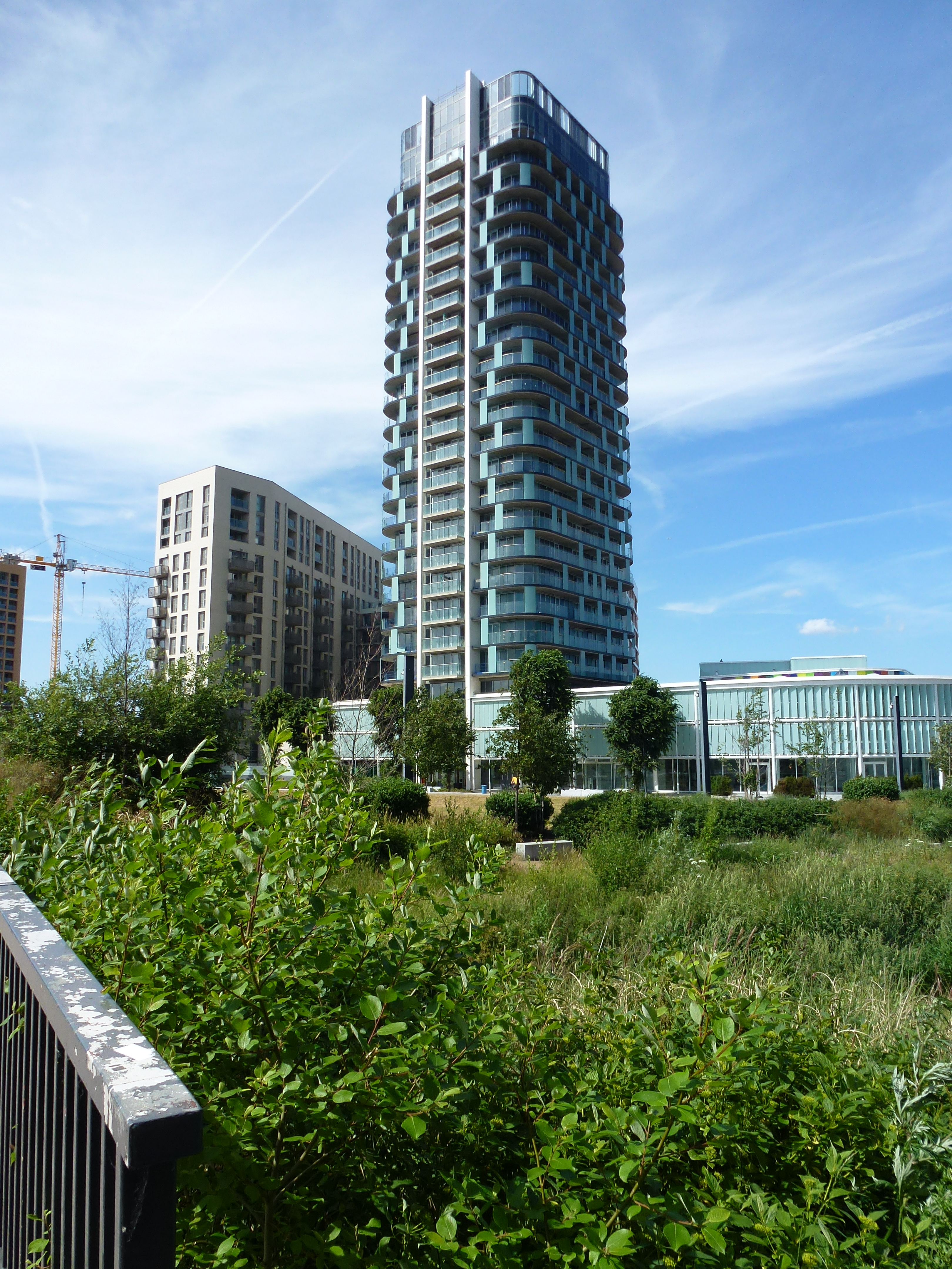 New 20+ story buildings on Lompit Vale, Lewisham, as part of the Lewisham regeneration project